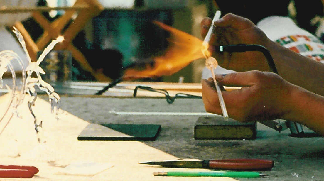 Demonstration of the lampworking process